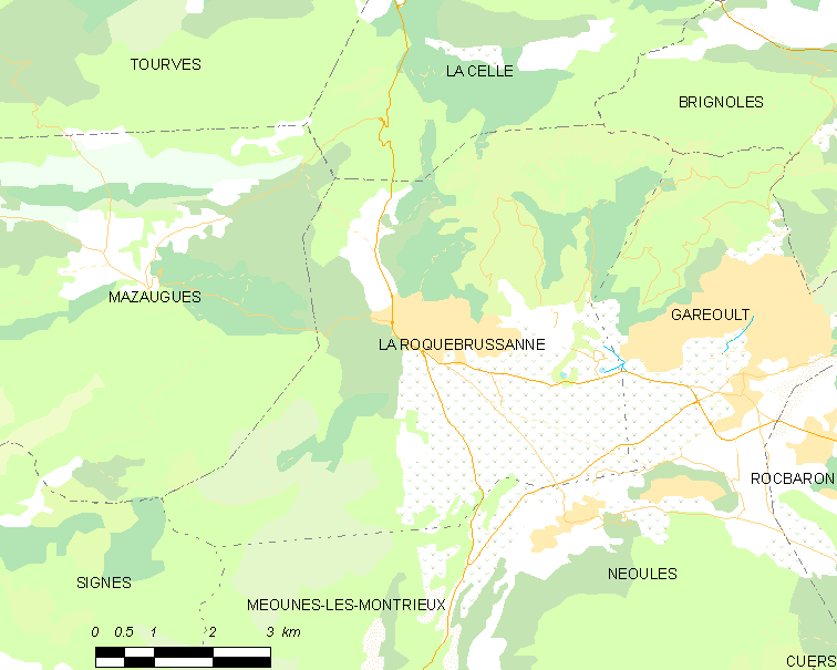 Map of French municipality La Roquebrussanne